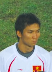 Doan Viet Cuong in Vietnam football team saluting before the match with Thailand in the second-tier AFF Cup 2008 final, December 28, 2008, at My Dinh National Stadium